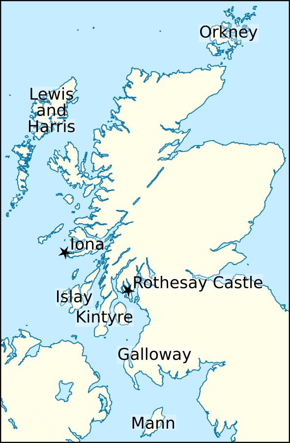 Map created for the Wikipedia article concerning Óspakr-Hákon, King of the Isles (died 1230).